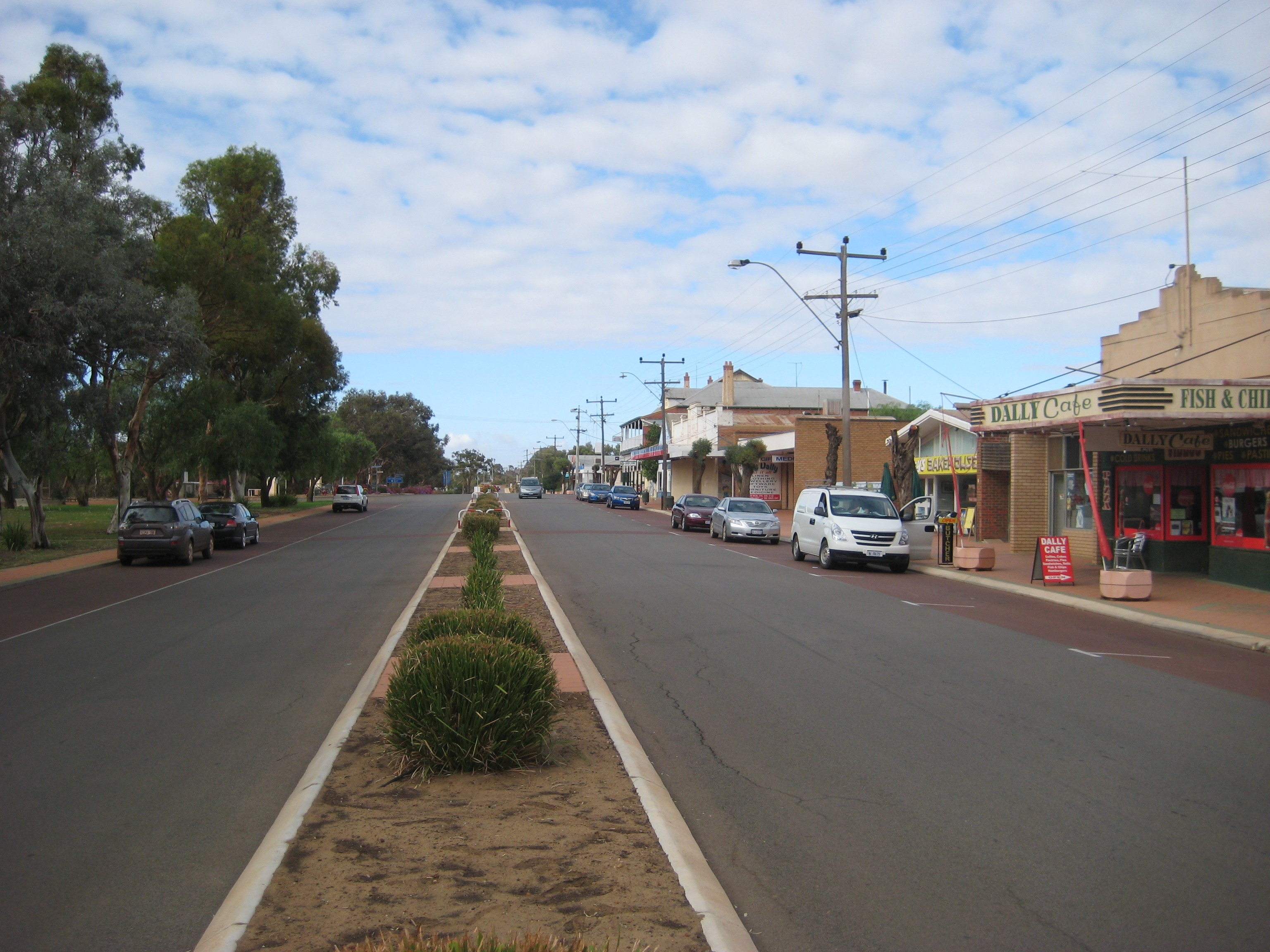 Main street in Dalwallinu, Western Australia.